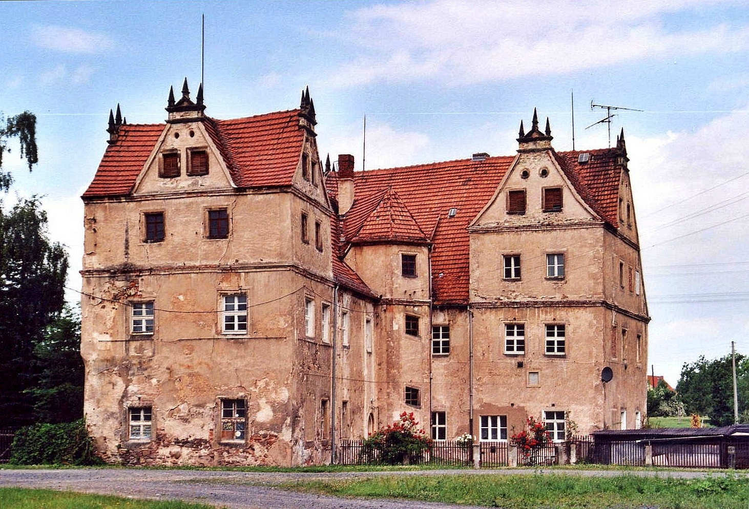 This image shows Schloss Lungkwitz (Lungkwitz Castle) in Kreischa in Saxony. The castle was built 1619/21.